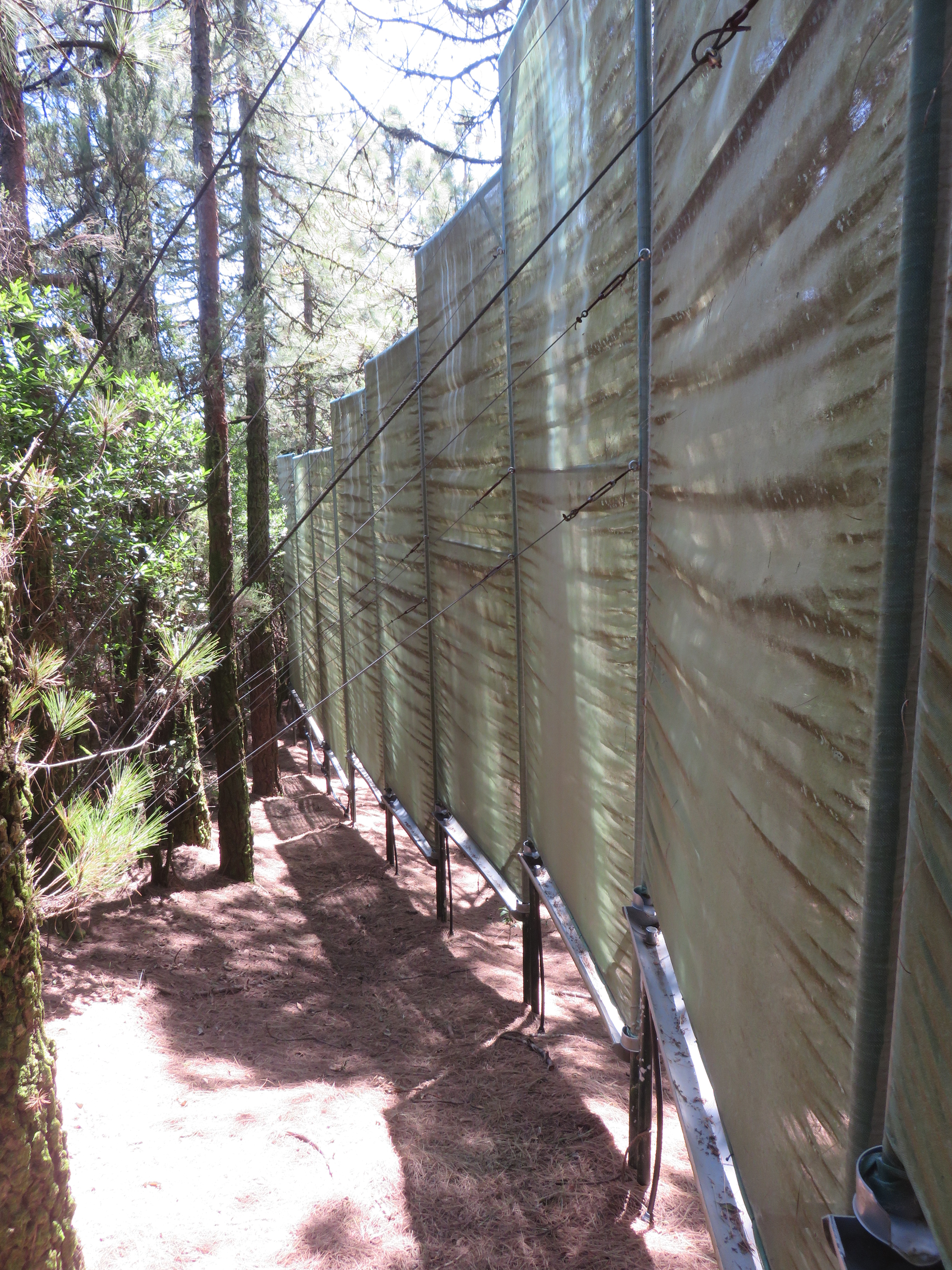 Fog collectors in the Cumbre Nueva, La Palma